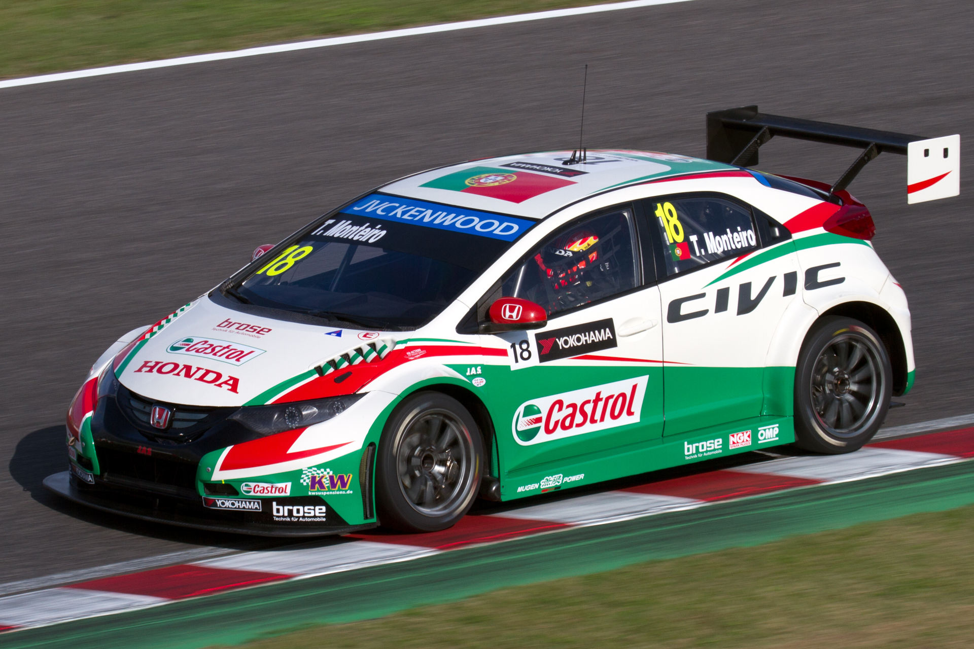 World Touring Car Championship 2014 Race of Japan: Tiago Monteiro (Honda WTC Team)